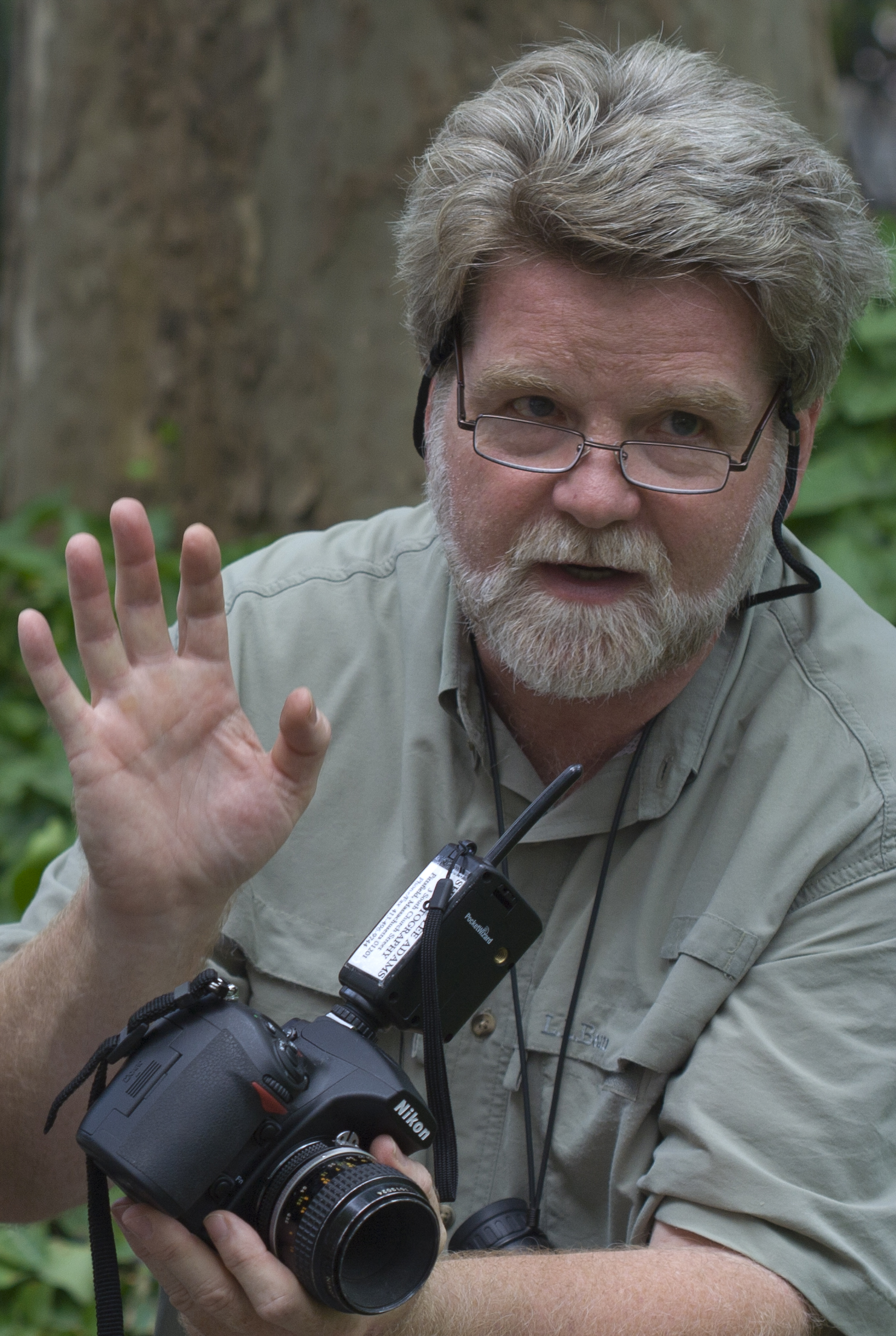 American photographer Shelby Lee Adams during a workshop at the ICP, New York. Unknown